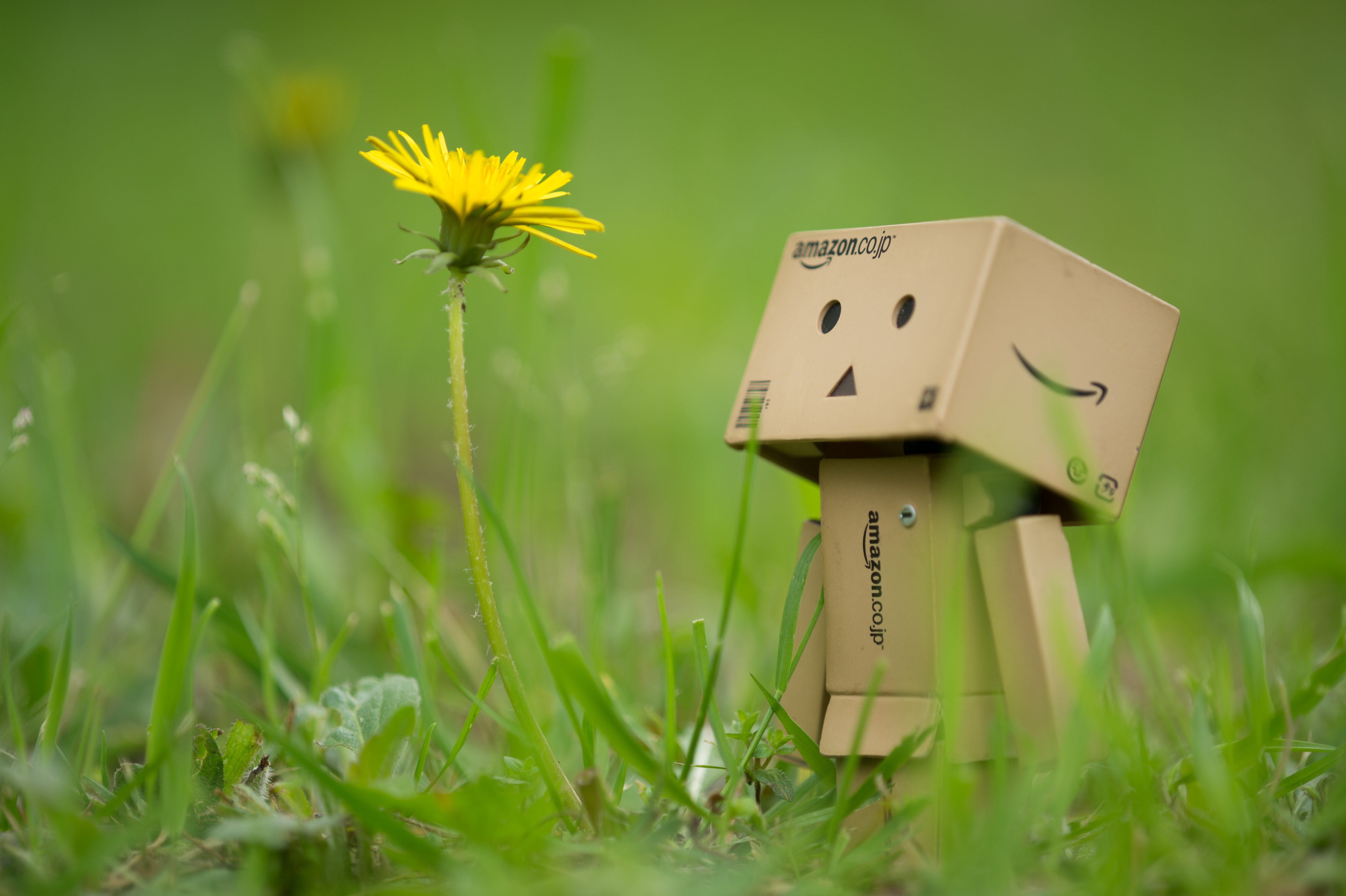 Danbo looks so pretty with this dandelion. たんぽぽよりも小さくてダンボーくんかわいらしい。 [ Nikon D4, Nikon Ai AF Micro-Nikkor 200mm f/4D IF-ED, f/4.2, 1/80sec, ISO125, Lightroom 4.4 ]